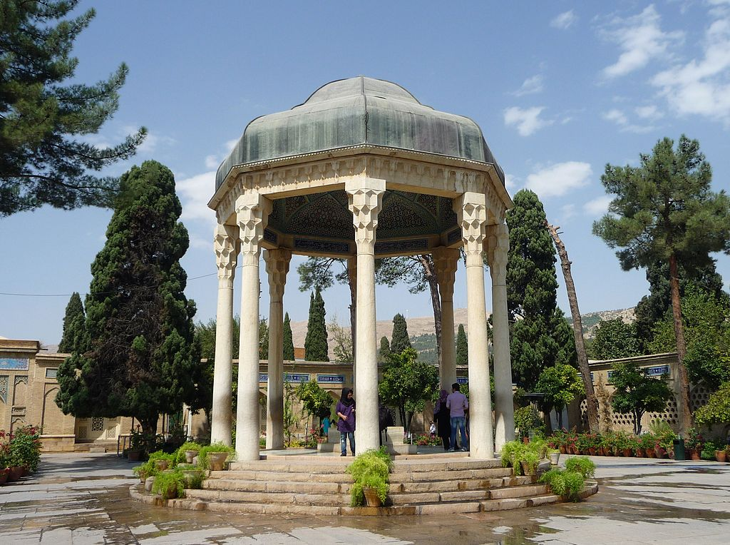 شیراز Shiraz